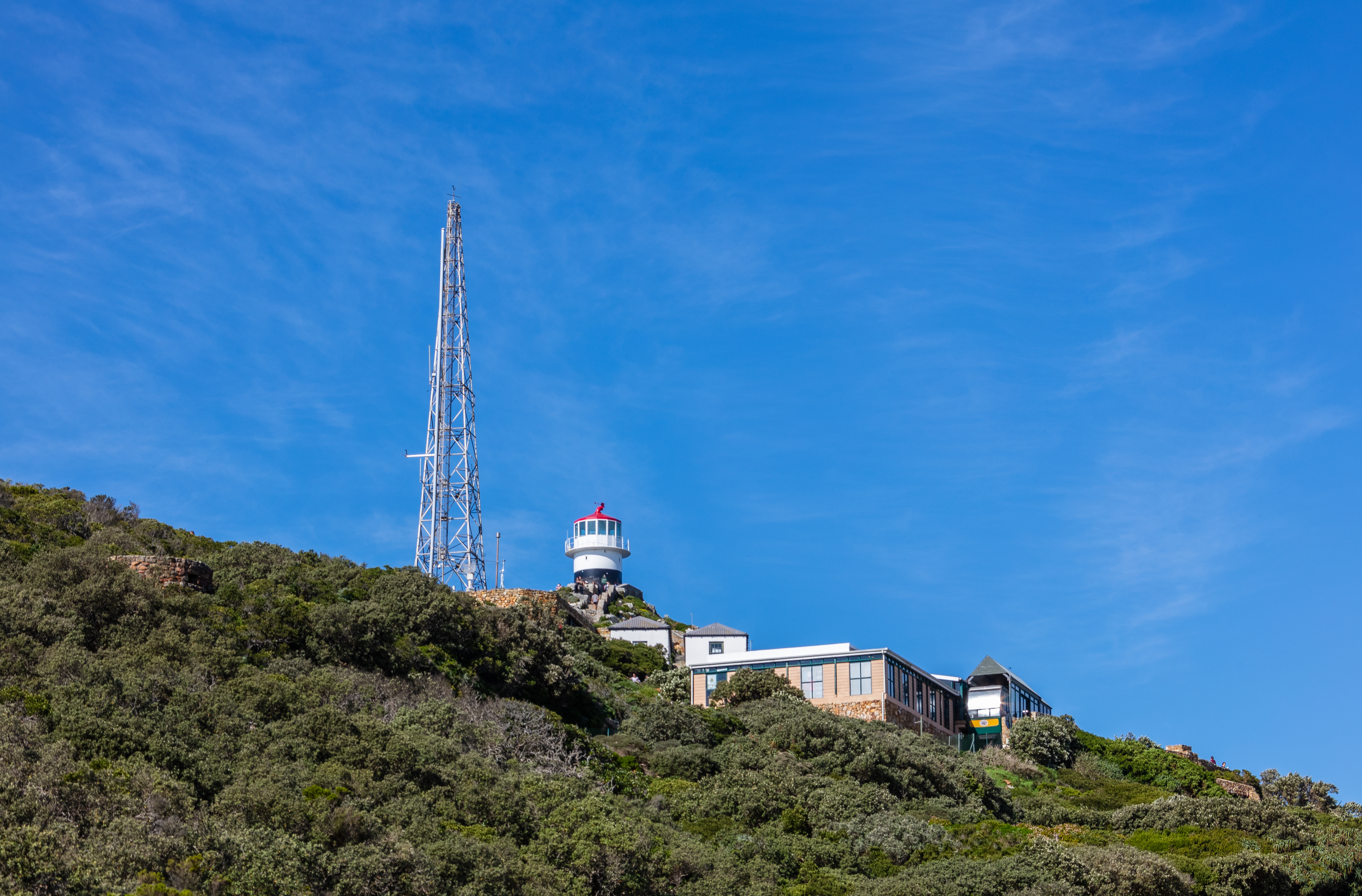 Old Cape Point Lighthouse, South Africa